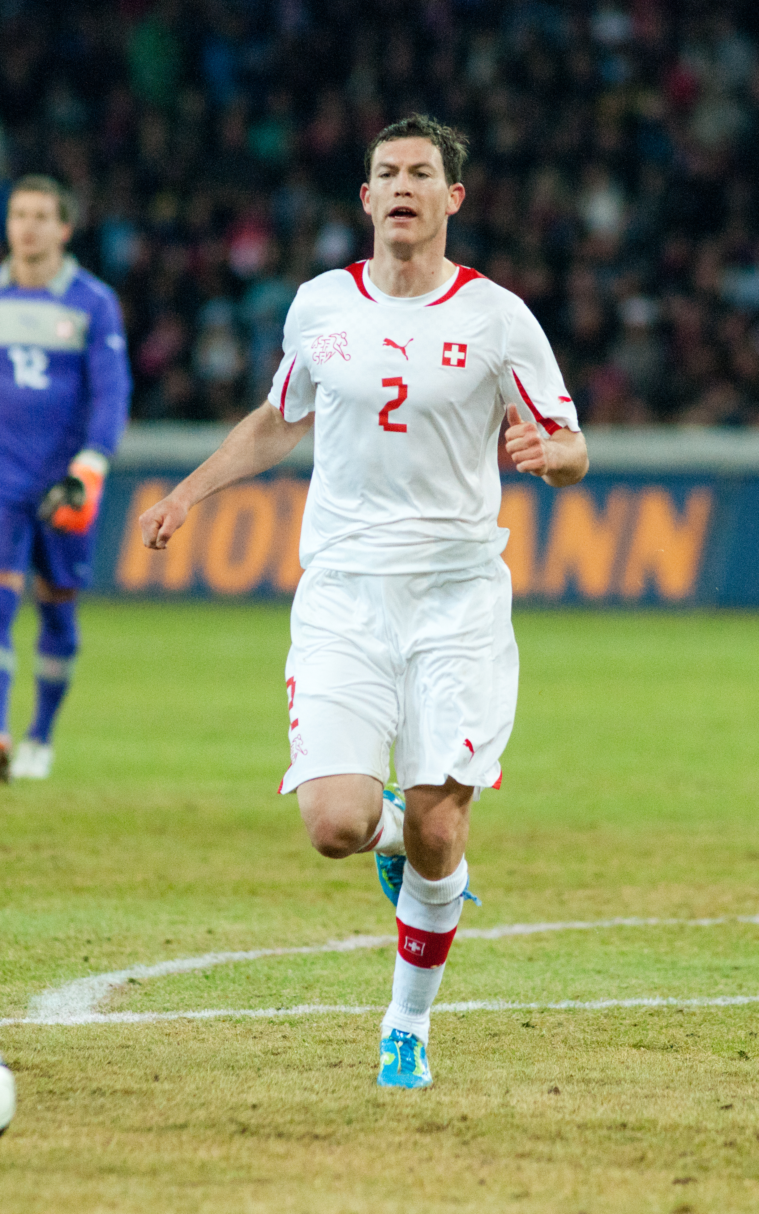 The making of this document was supported by Wikimedia CH. (Submit your project!) For all the files concerned, please see the category Supported by Wikimedia CH. Switzerland vs. Argentina, 29th February 2012